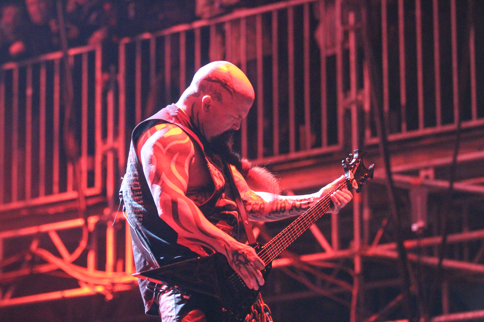 Festivalsommer This photo was created with the support of donations to Wikimedia Deutschland in the context of the CPB project "Festival Summer".